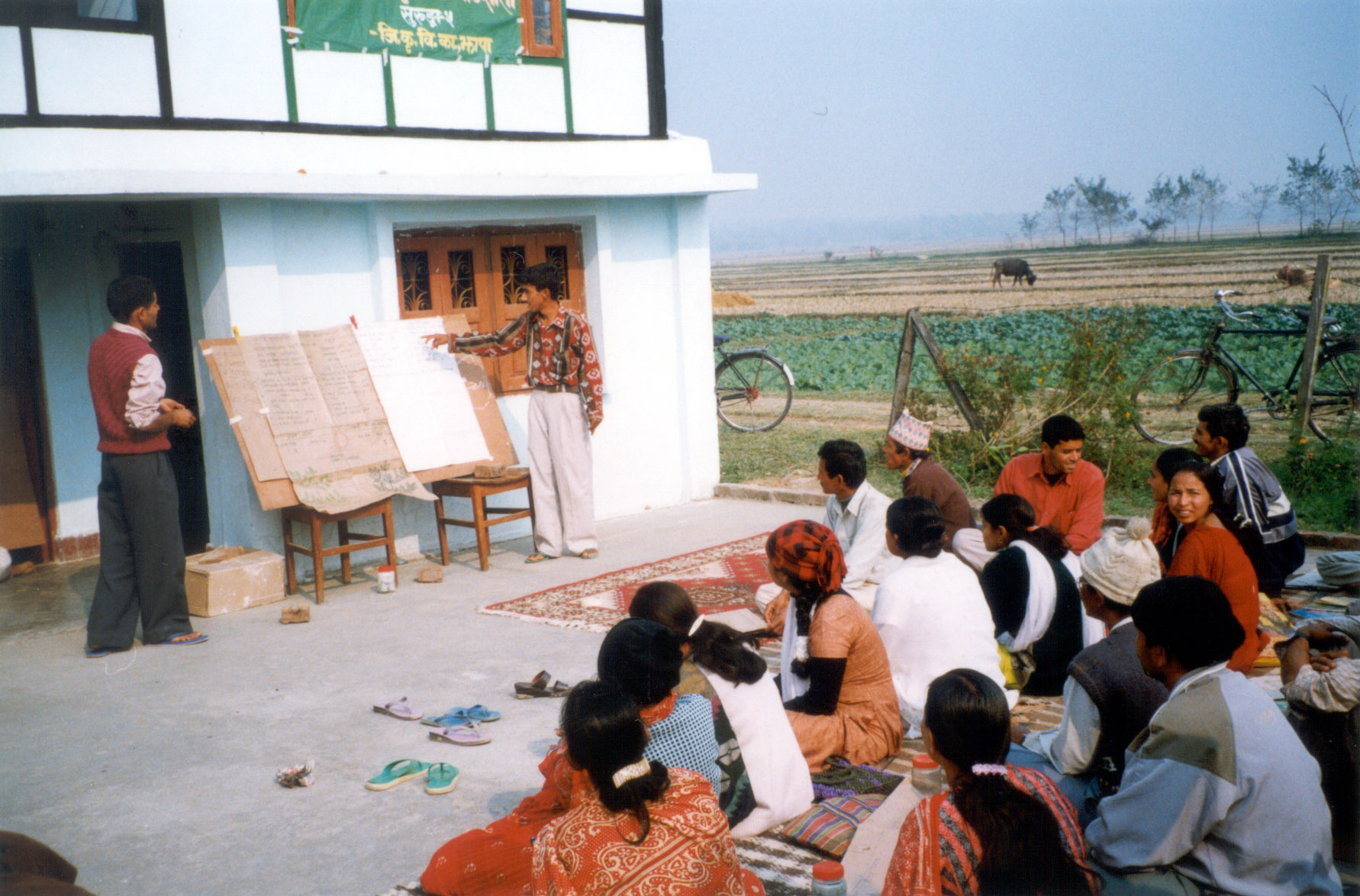 Image shows agricultural extension meeting in Eastern Terai region of Nepal, 2002. APB-CMX 11:13, 17 September 2006 (UTC)